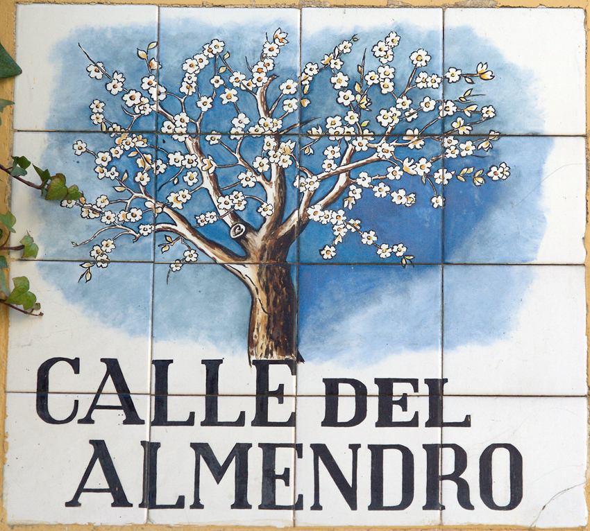 Sign of Calle del Almendro (street, Centro district) in Madrid (Spain).